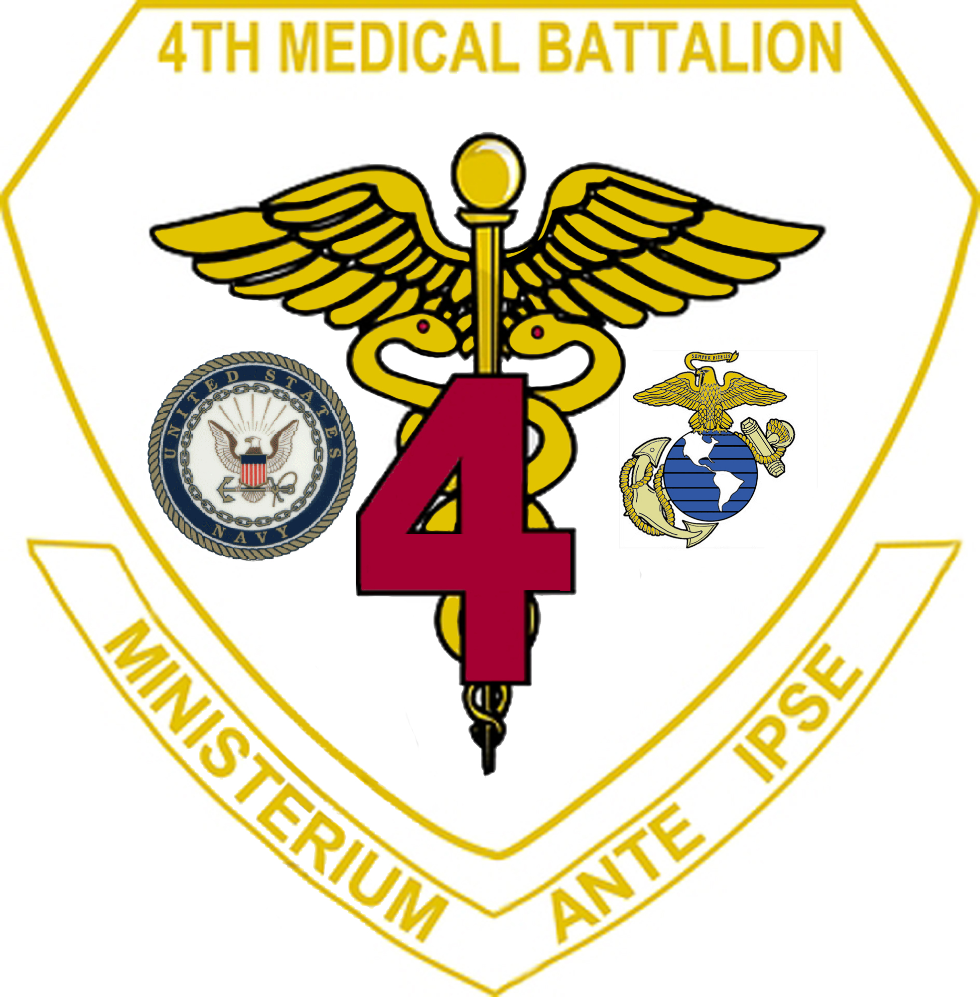 Logo for 4th Medical Battalion